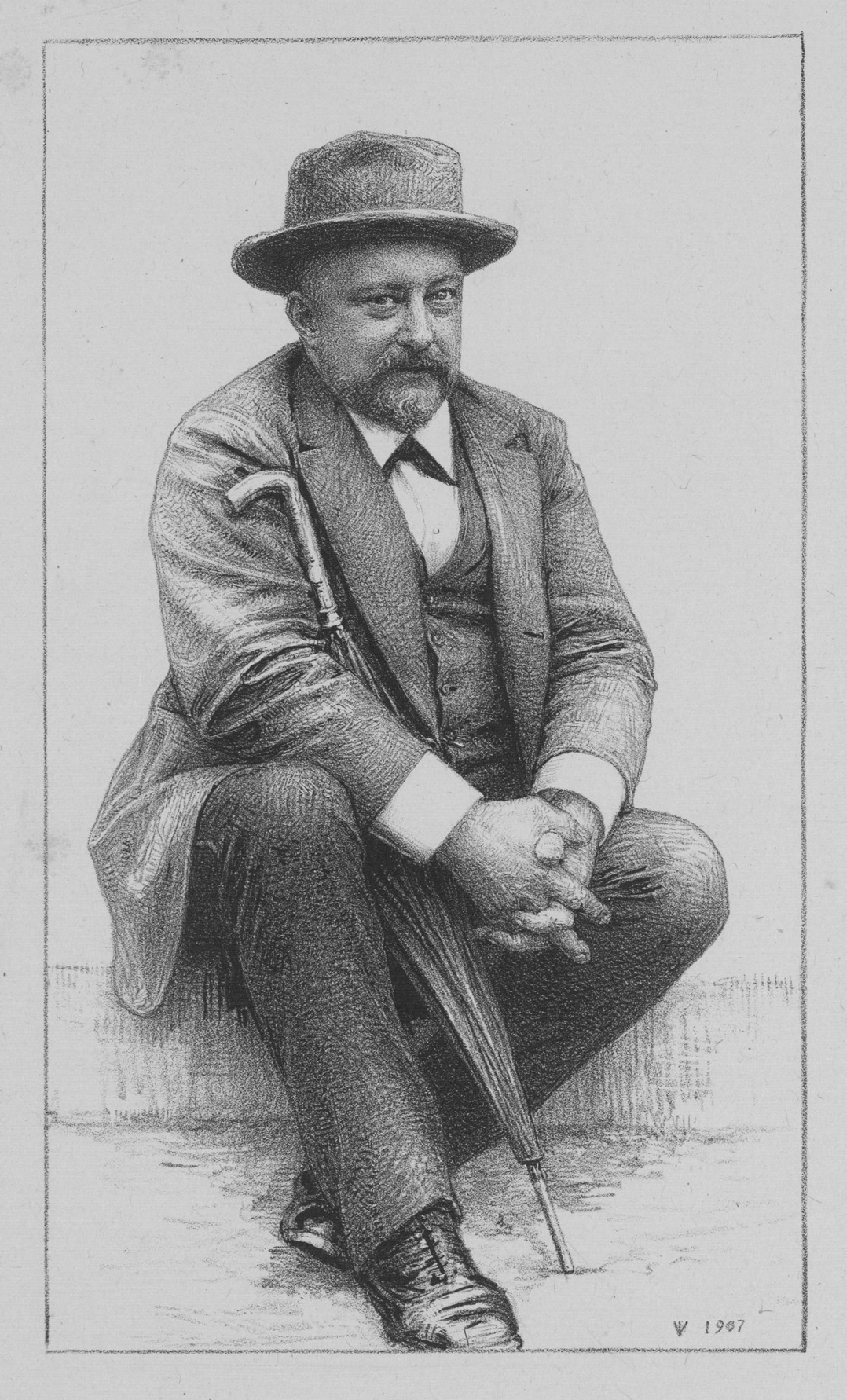 Pieter Lodewijk Tak (1892) lithography 27 x 15,6 cm signed b.r.: JV 1907